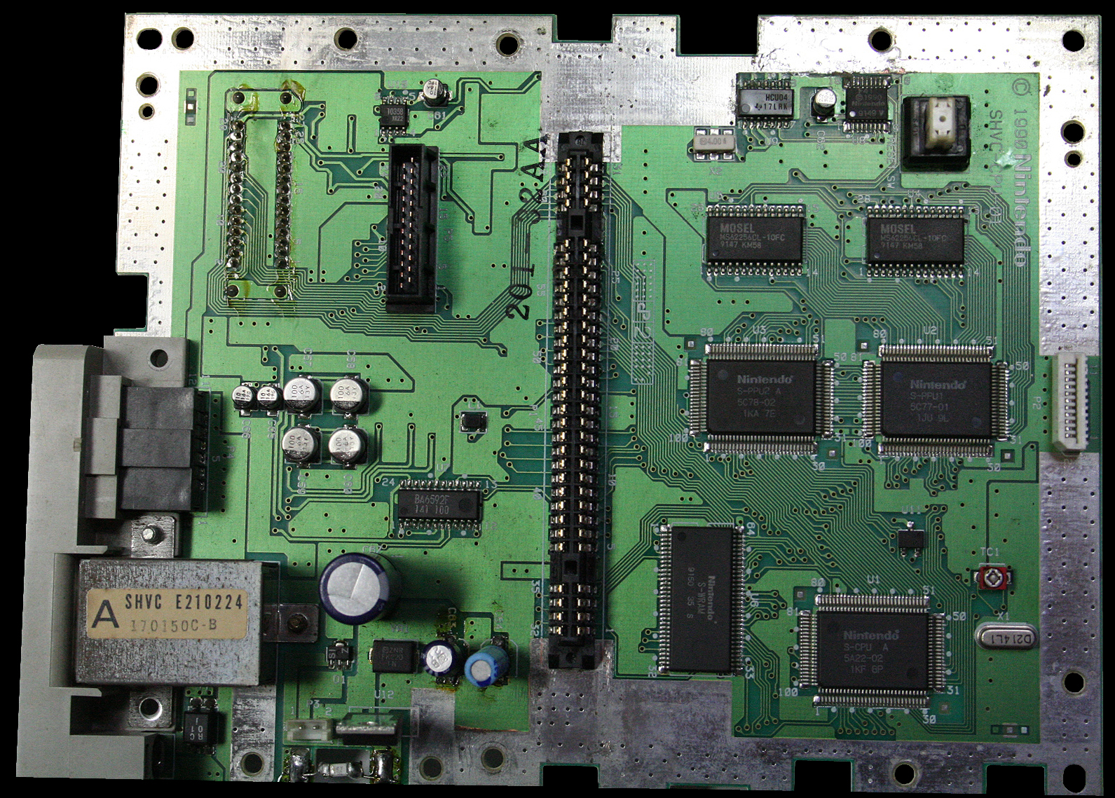 SFC SHVC-CPU-01 FRONT SIDE(Slot connector was removed.)